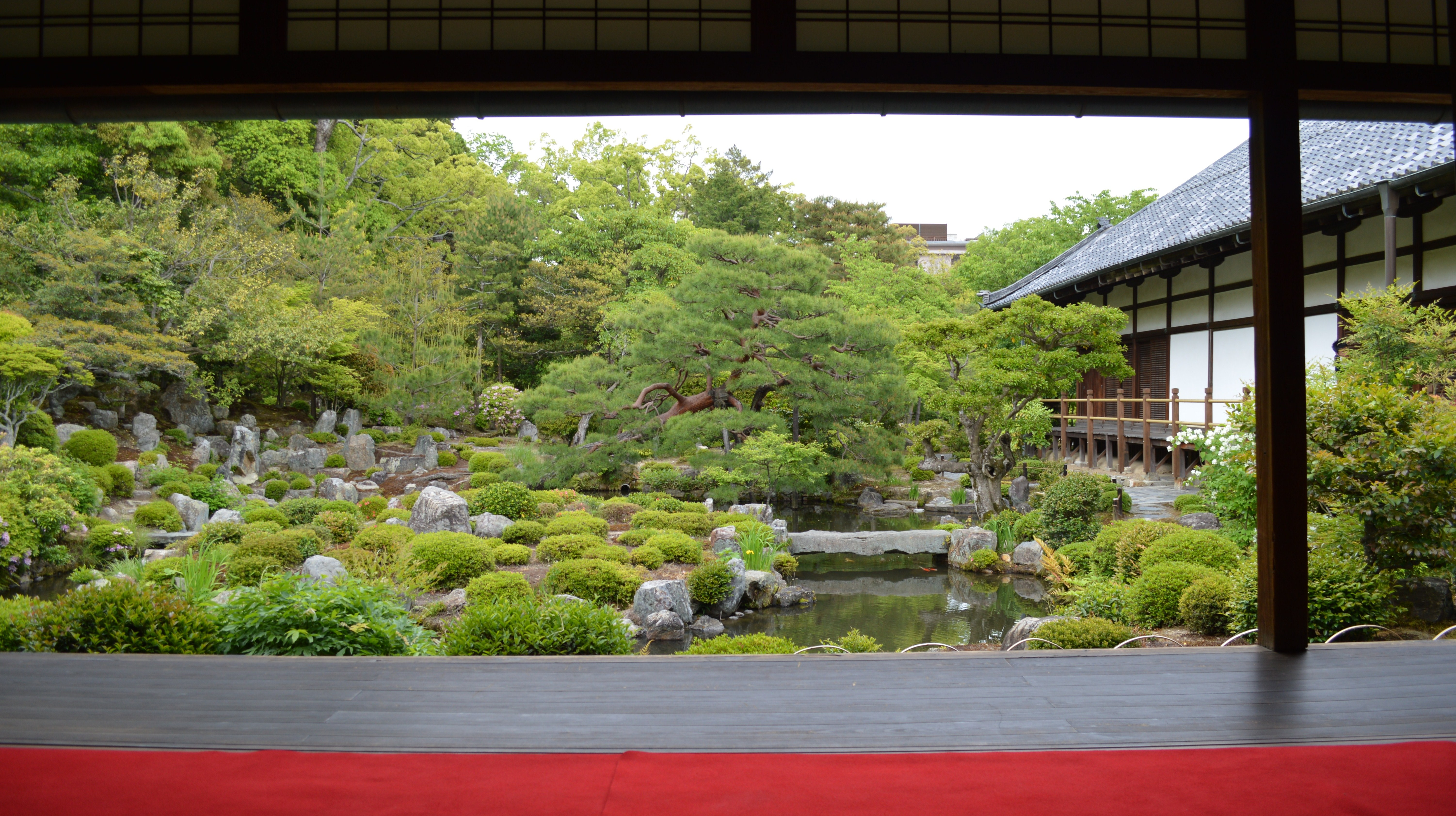 Tōji-in